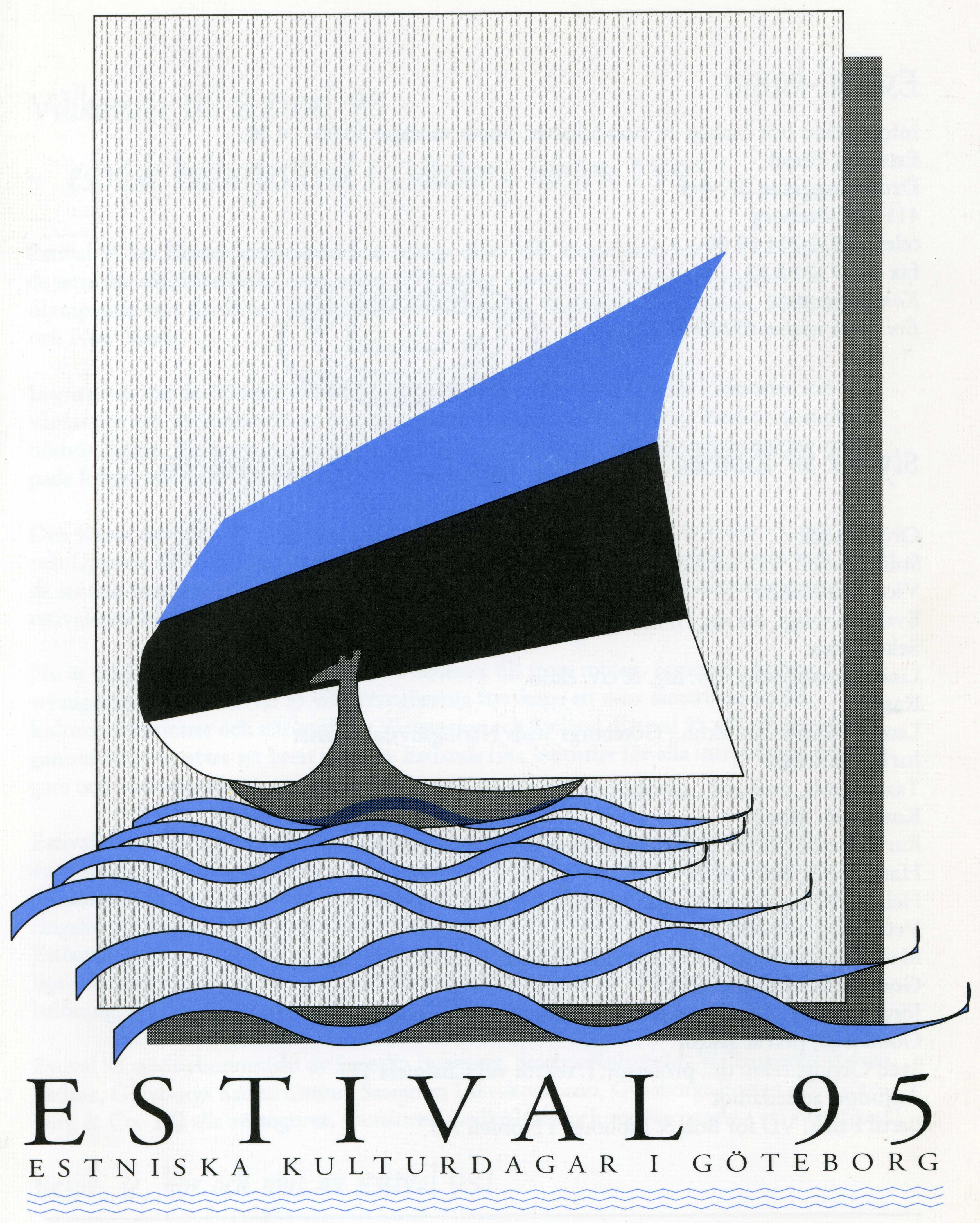 Estival 95. Estniska kulturdagar i Göteborg. Programhäfte. Göteborg: 1995.